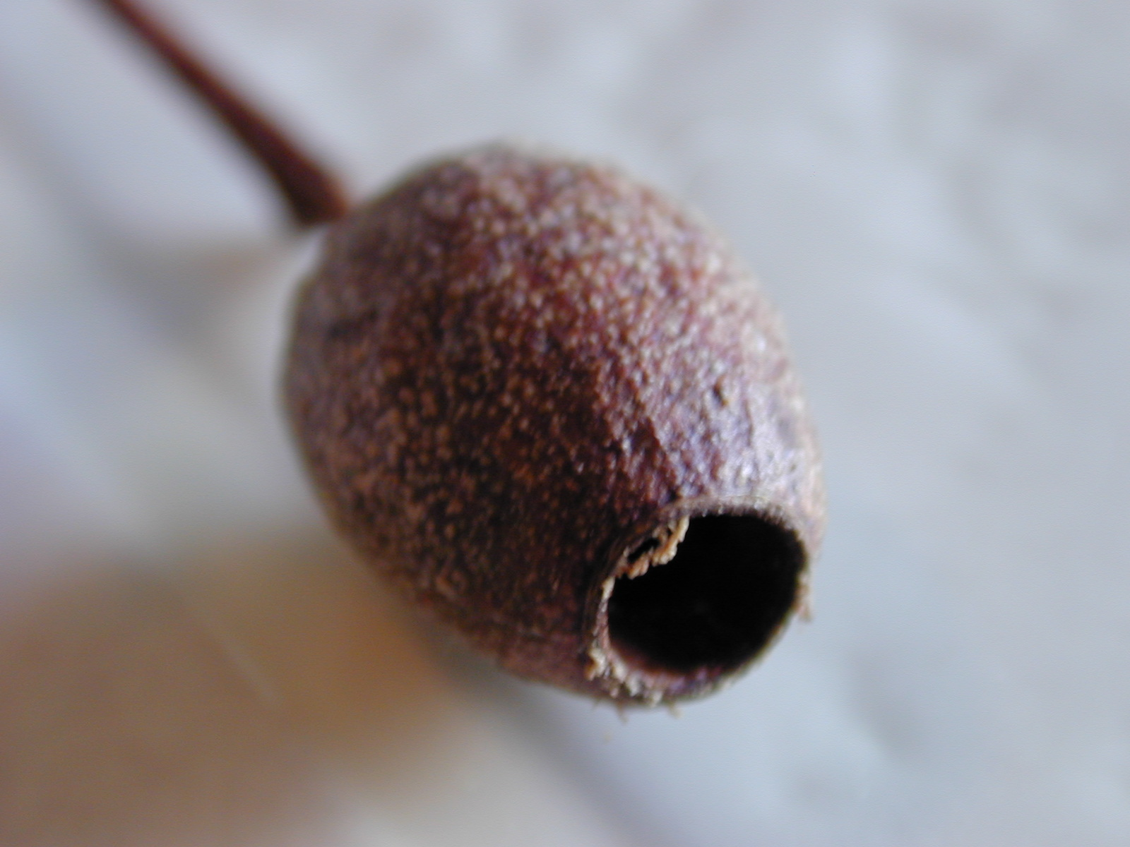 Corymbia gummifera (oval fruit). Location: Maui, Hobdy collection